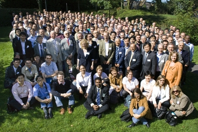 Participants of the Soft Magnetic Materials conference (SMM18) in Cardiff, September 2007